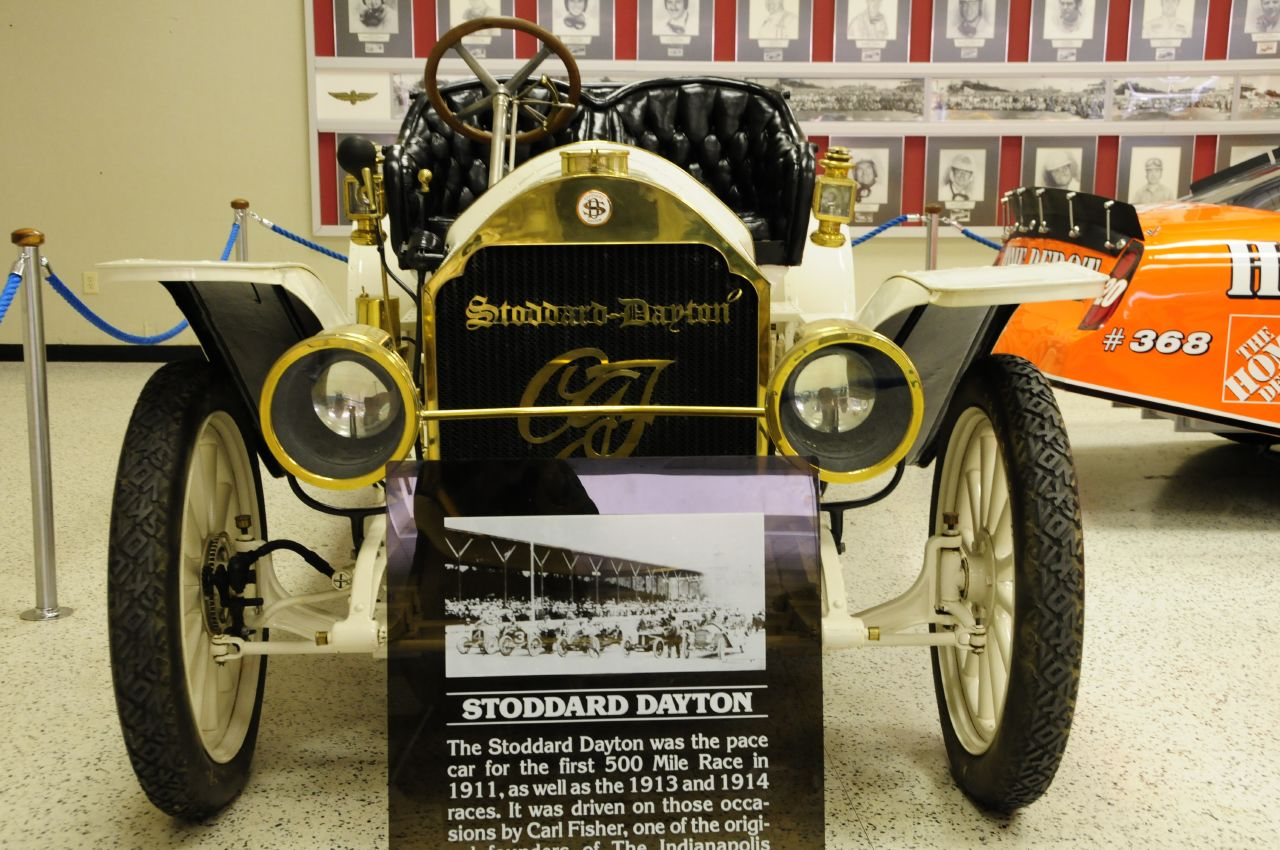 1911 Stoddard-Dayton 50 hp Model 11 Racer with shortened chassis (106 in) was pace car at first Indy 500 race in 1911